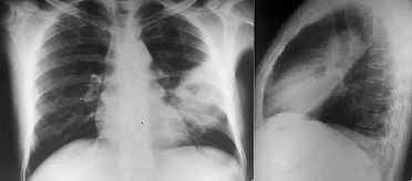 To the left: posterior-anterior (PA) X ray showing homogenous opacity with a cavitary lesion occupying parts of left middle and lower zones of the lungs. On the right: left lateral X ray showing cavitary lesion overlapping with the heart shadow.